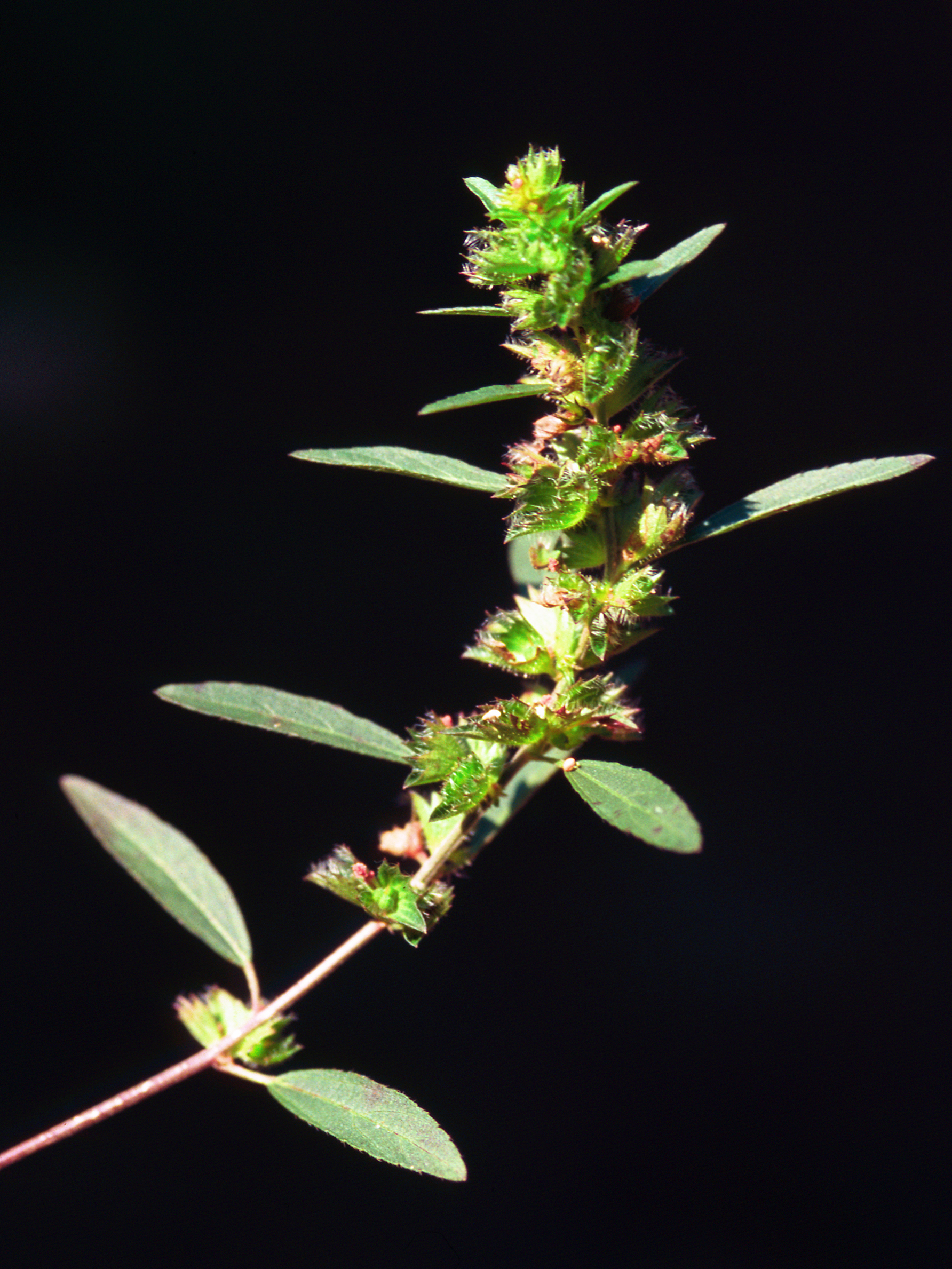 Acalypha gracilens Gray - slender copperleaf - October. Photo from Forest Plants of the Southeast and Their Wildlife Uses by J.H. Miller and K.V. Miller, published by The University of Georgia Press in cooperation with the Southern Weed Science Society